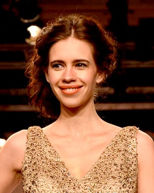 Kalki Koechlin at the Lakme Fashion Week (2014)